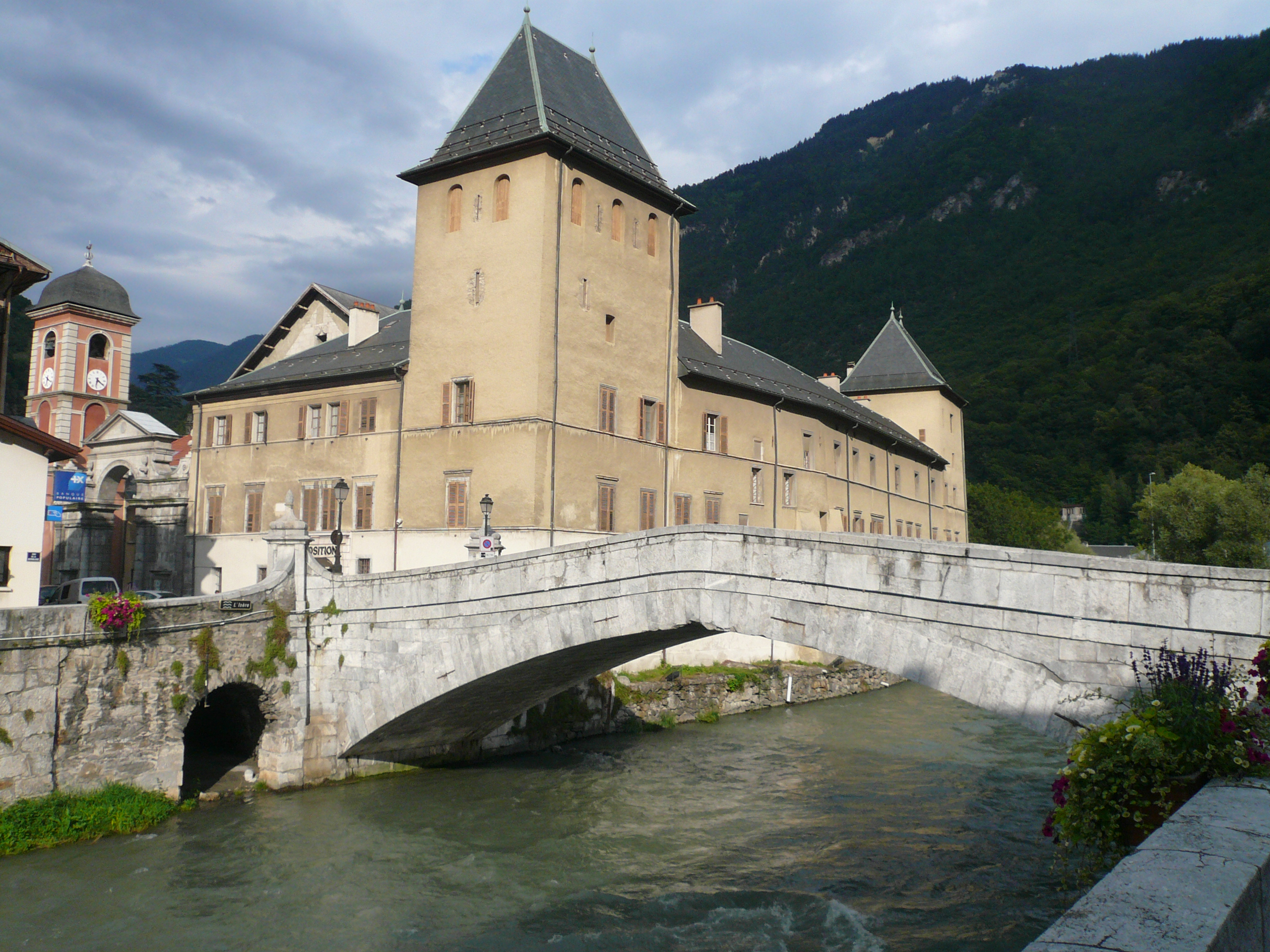 Former bishopric and old bridge in Moûtiers, Savoie, Rhône-Alpes, France.